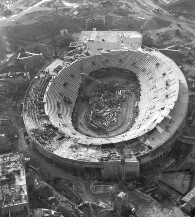 Olympic Hall, Munich, under construction, ca. 1970.